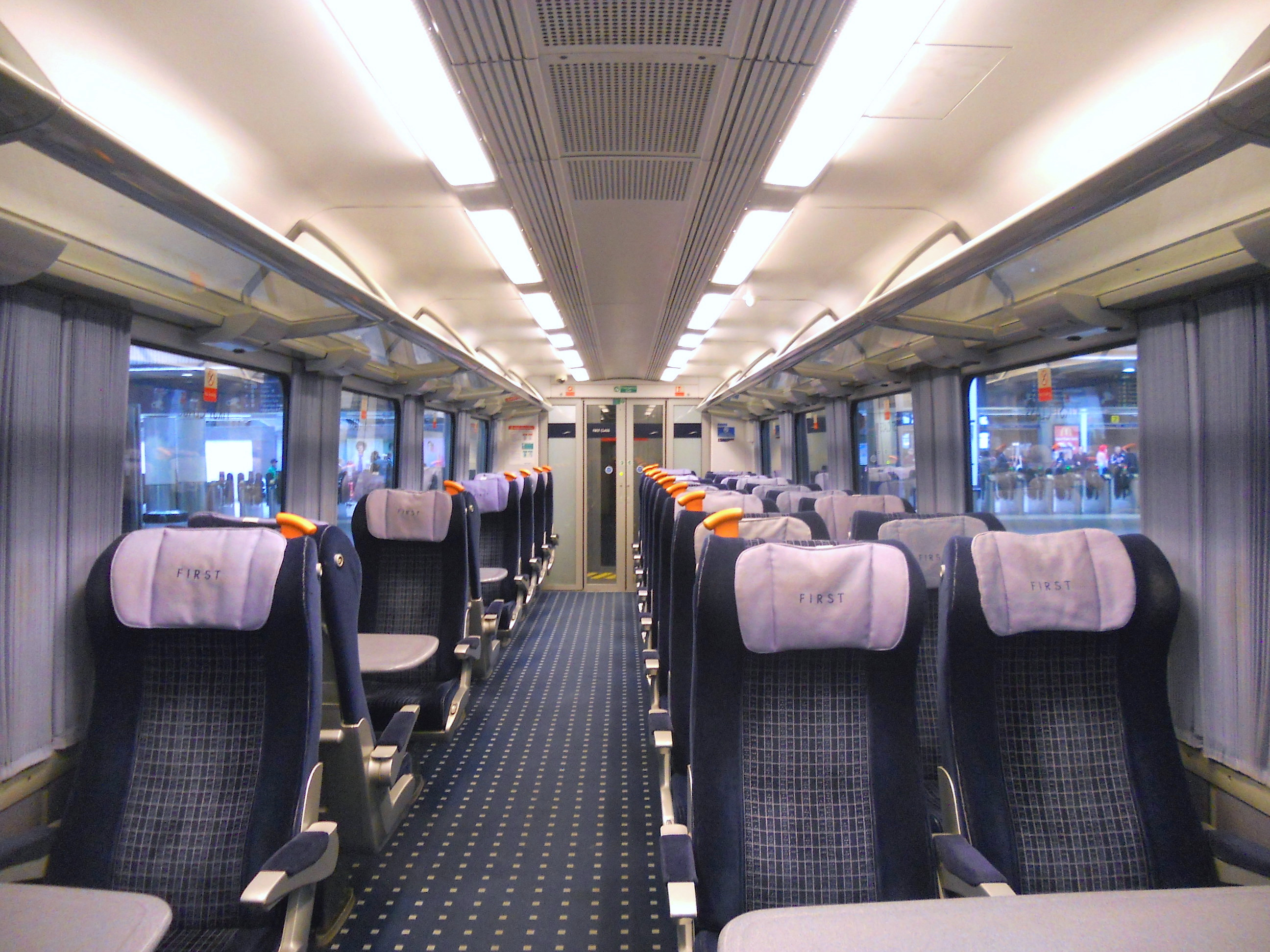 The interior of First Class accommodation aboard a South West Trains Class 444